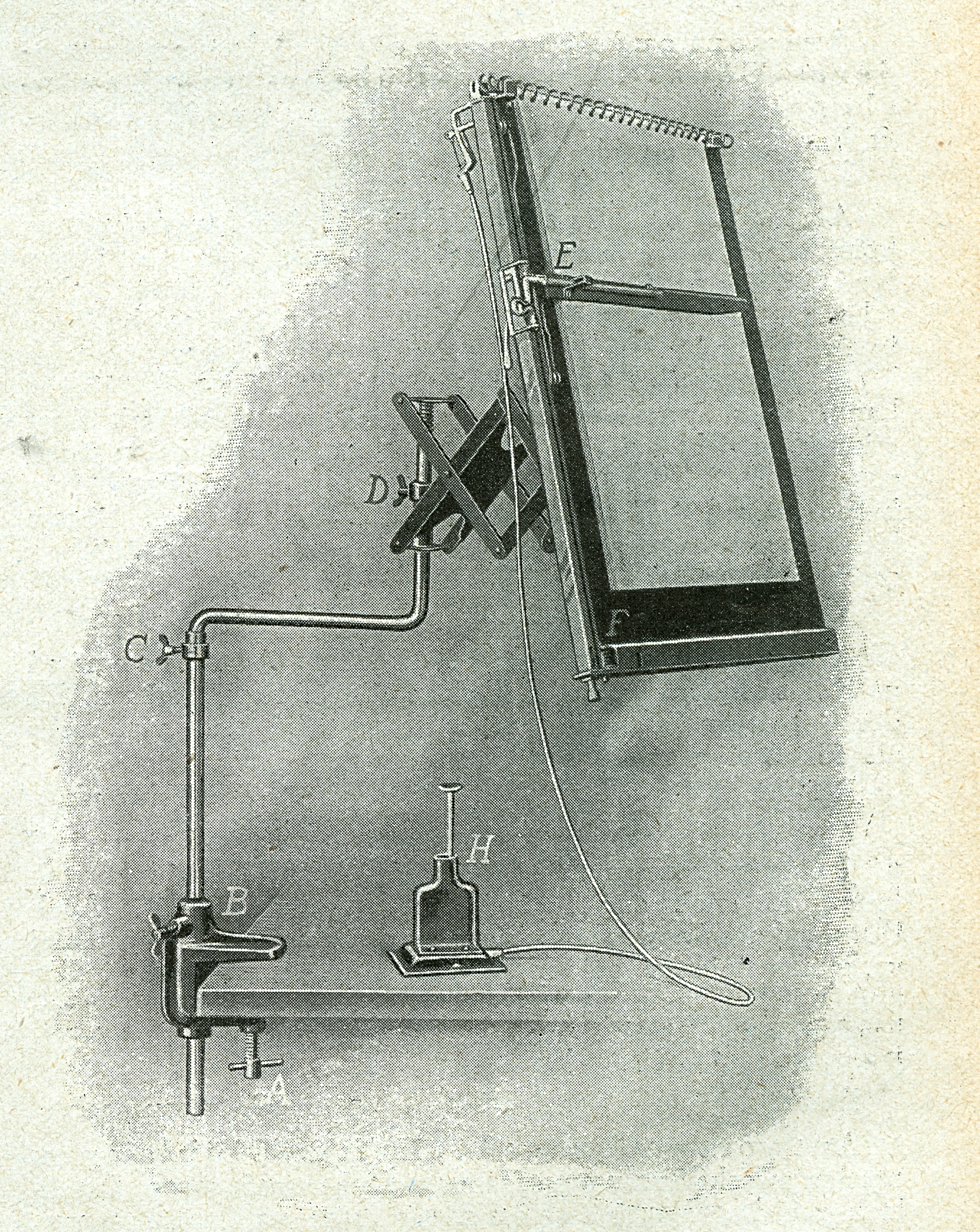 Holder for draft to be type written